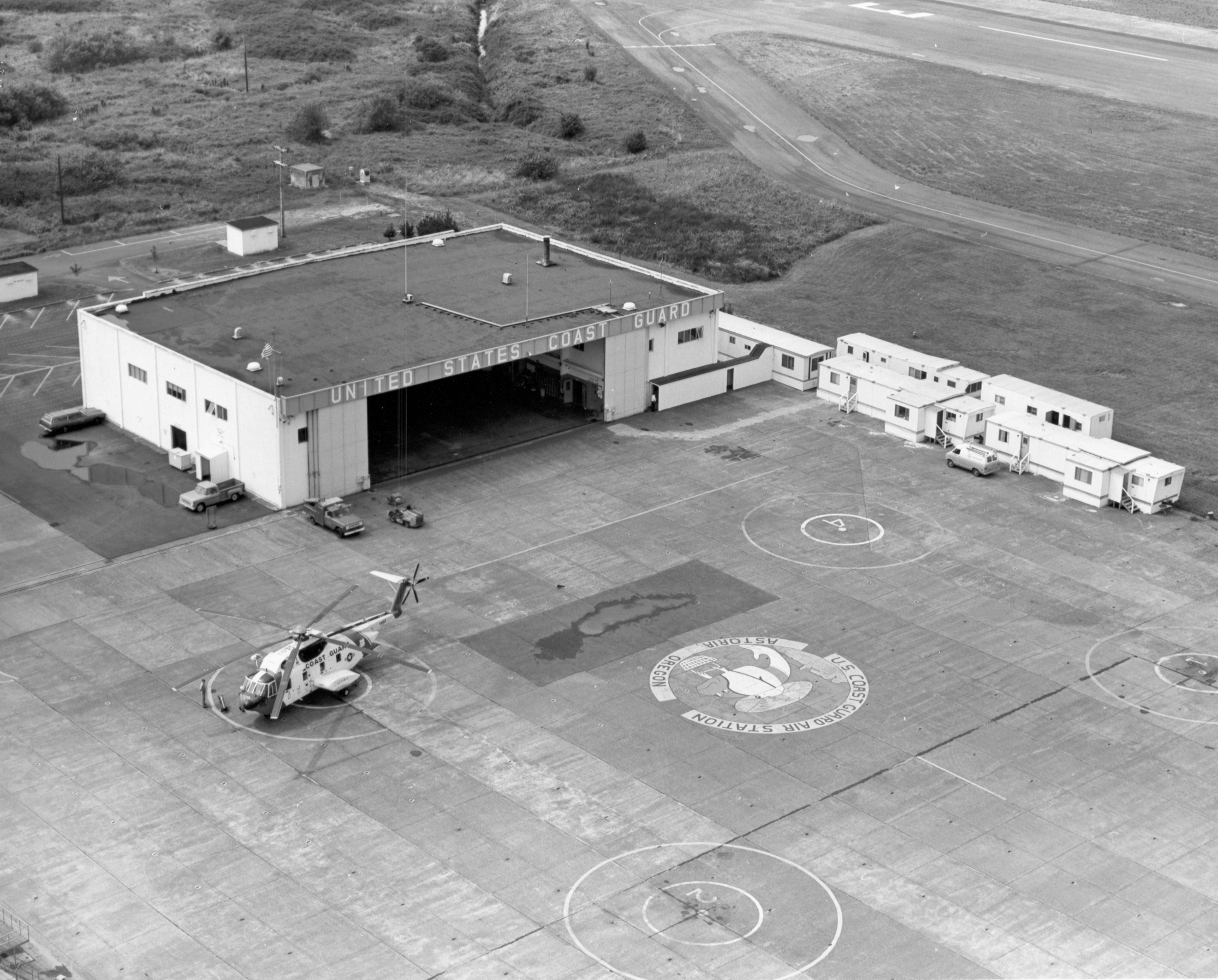 Aerial view of the U.S. Coast Guard Air Station Astoria, Warrenton, Oregon (USA), in 1974. Note the Sikorsky HH-3F Pelican helicopter in the foreground.